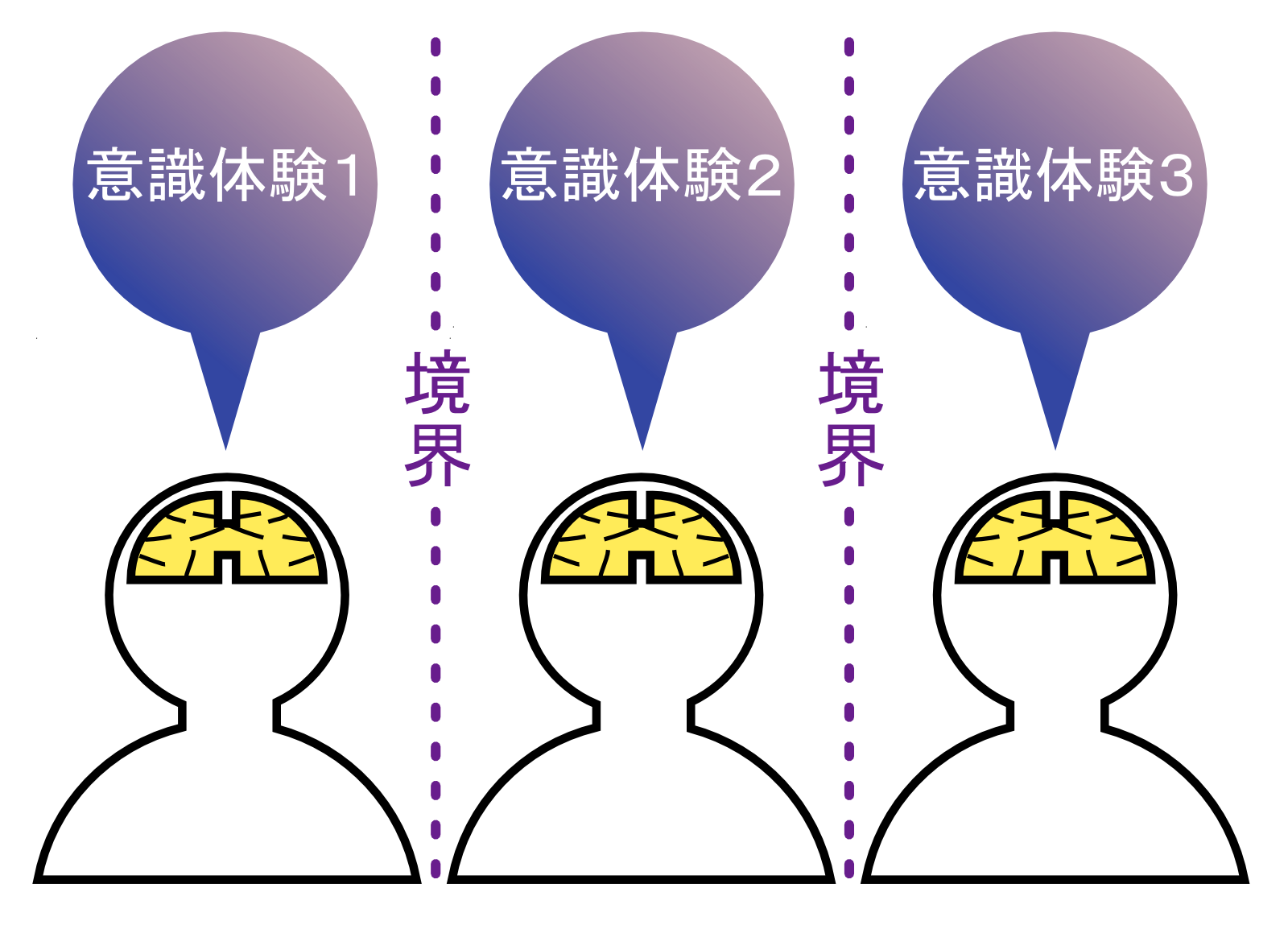 Diagram about boundary problem, is problem discussed in philosophy of mind related to unity of consciousness. 境界問題の説明図。意識の統一性と関係した問題で、心の哲学において議論される。